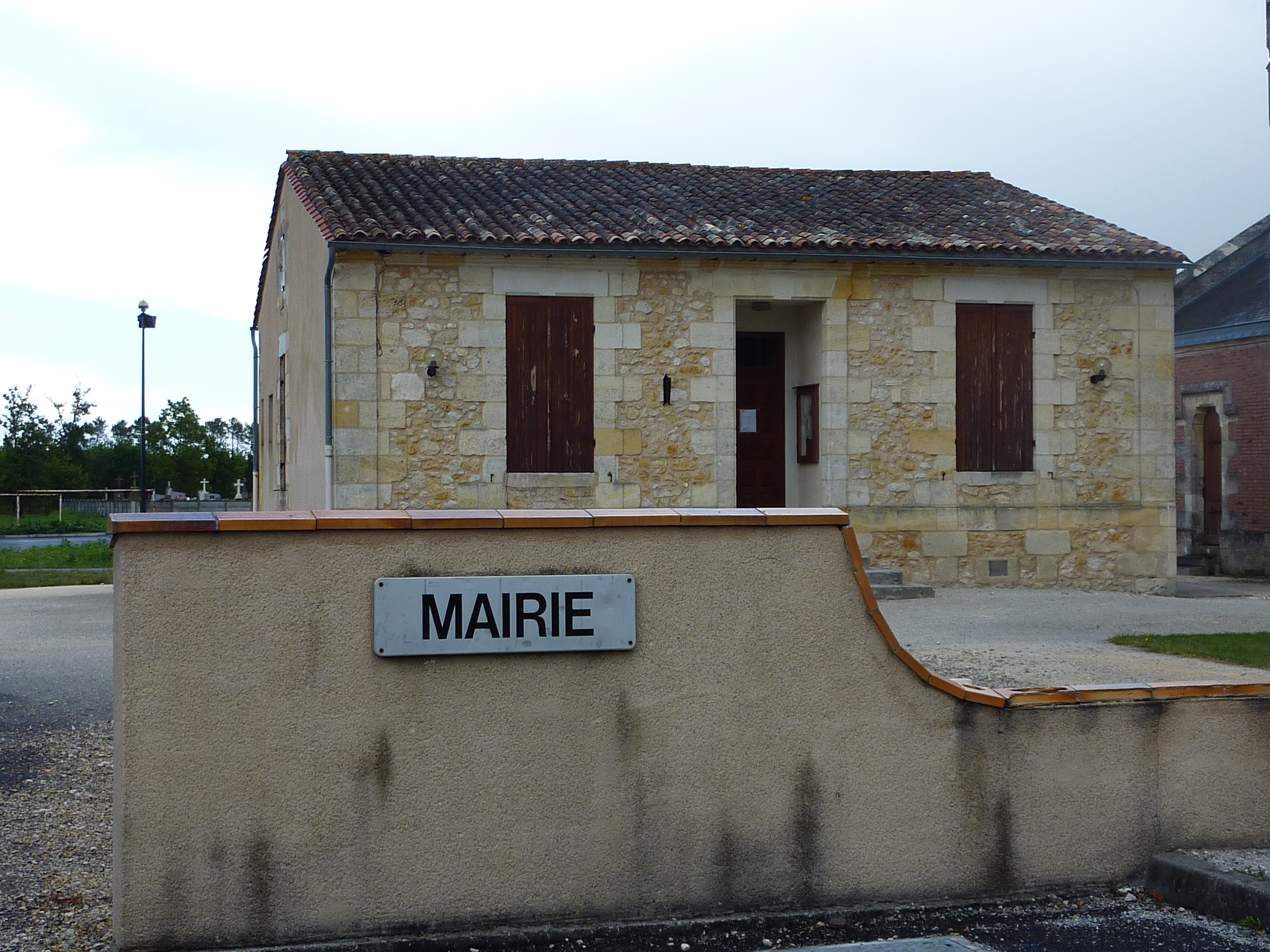 Townhall of Brach (Gironde, France)